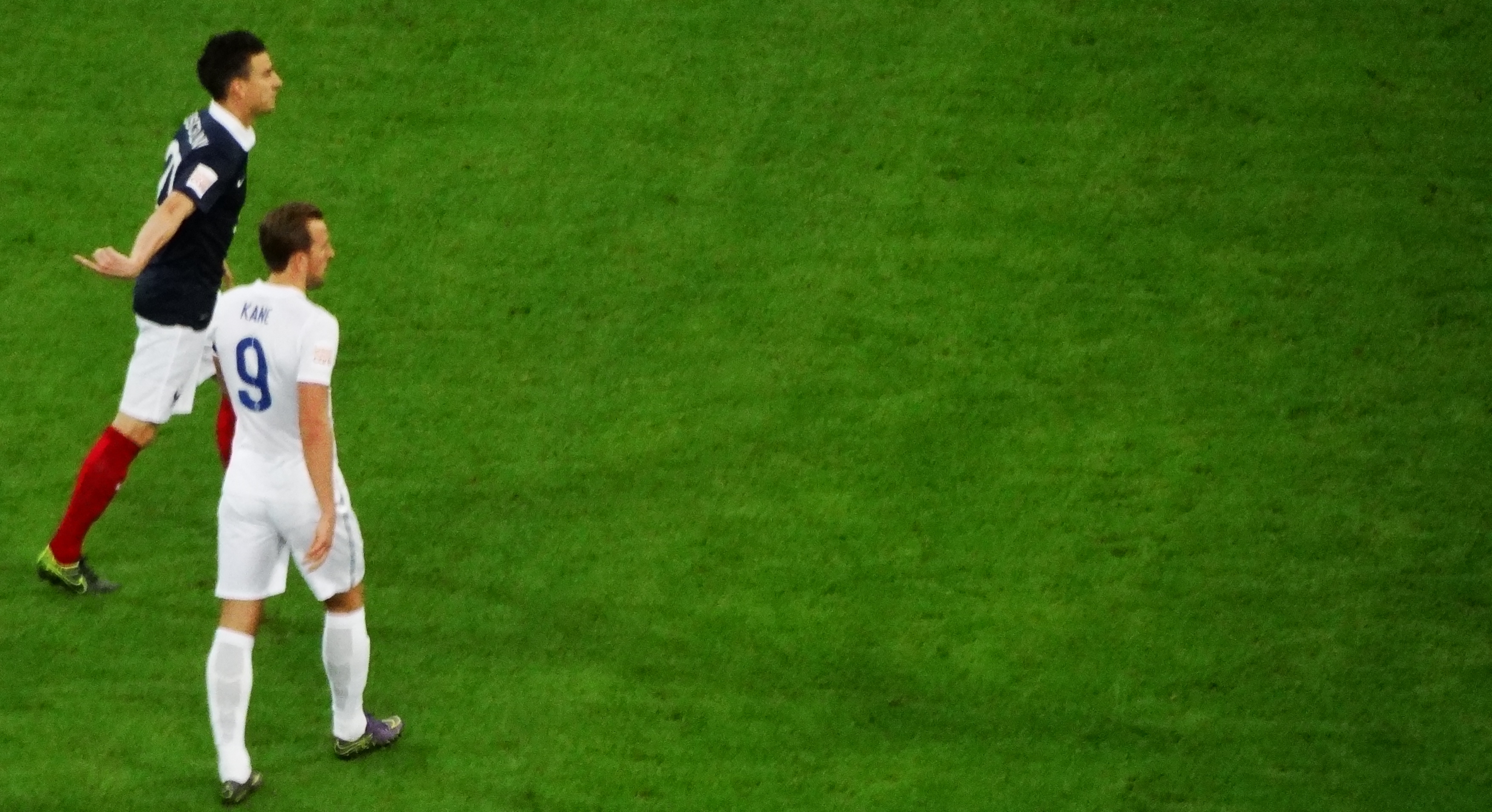 Laurent Koscielny of France marking England striker Harry Kane